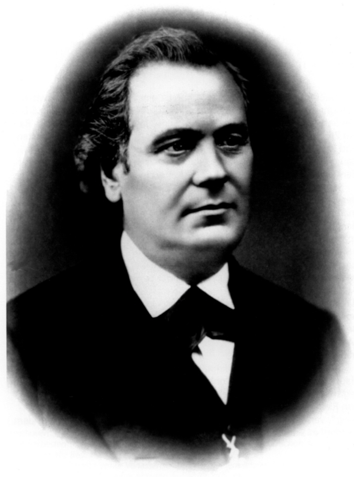 Joseph Anton Pfeiffer (Riedlingen 1828-03-08 - 1881-05-06 Stuttgart), piano manufacturer, photograph, c. 1870